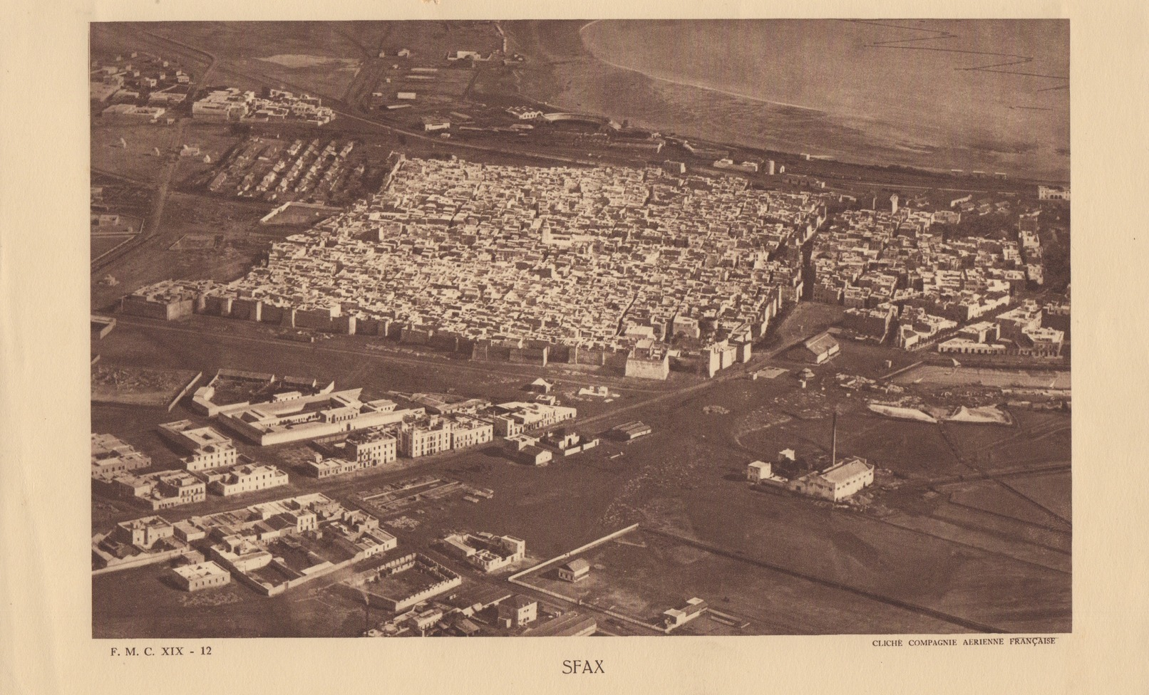 View of the medina of Sfax in the 20th century